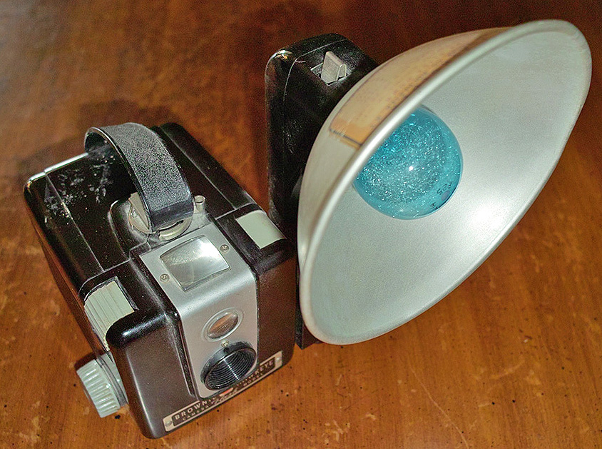 A Kodak Brownie Hawkeye camera with Kodalite flash attachment and Sylvania blue-dot daylight-type flash bulb P25.